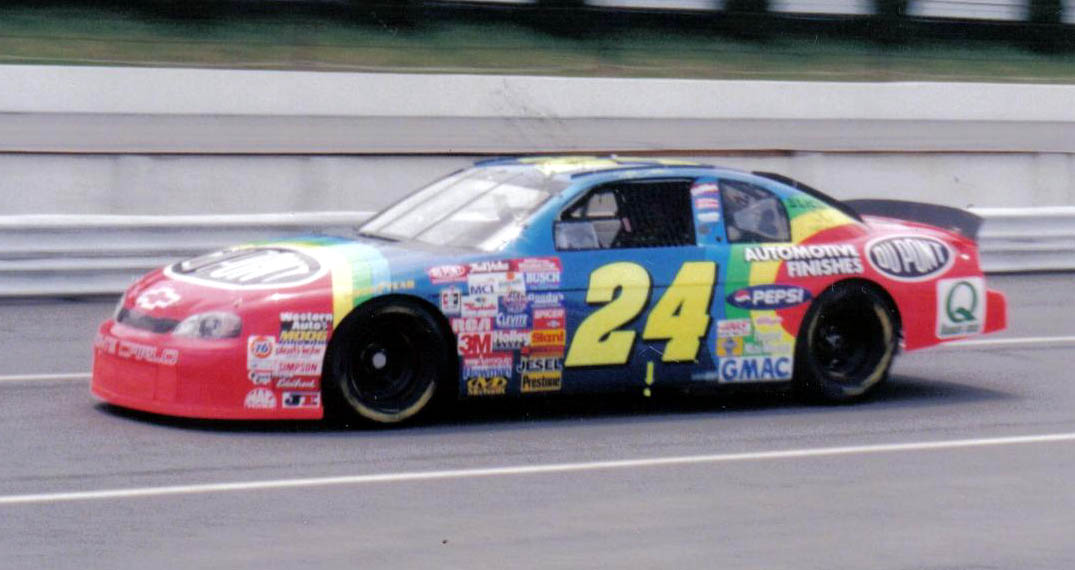 1997 NASCAR Winston Cup Champion Jeff Gordon, the winner of the race this weekend at Pocono 1997. Remarkable how similar the paint scheme still is.